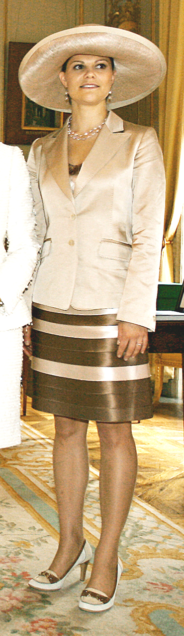 Victoria, crown princess of Sweden.